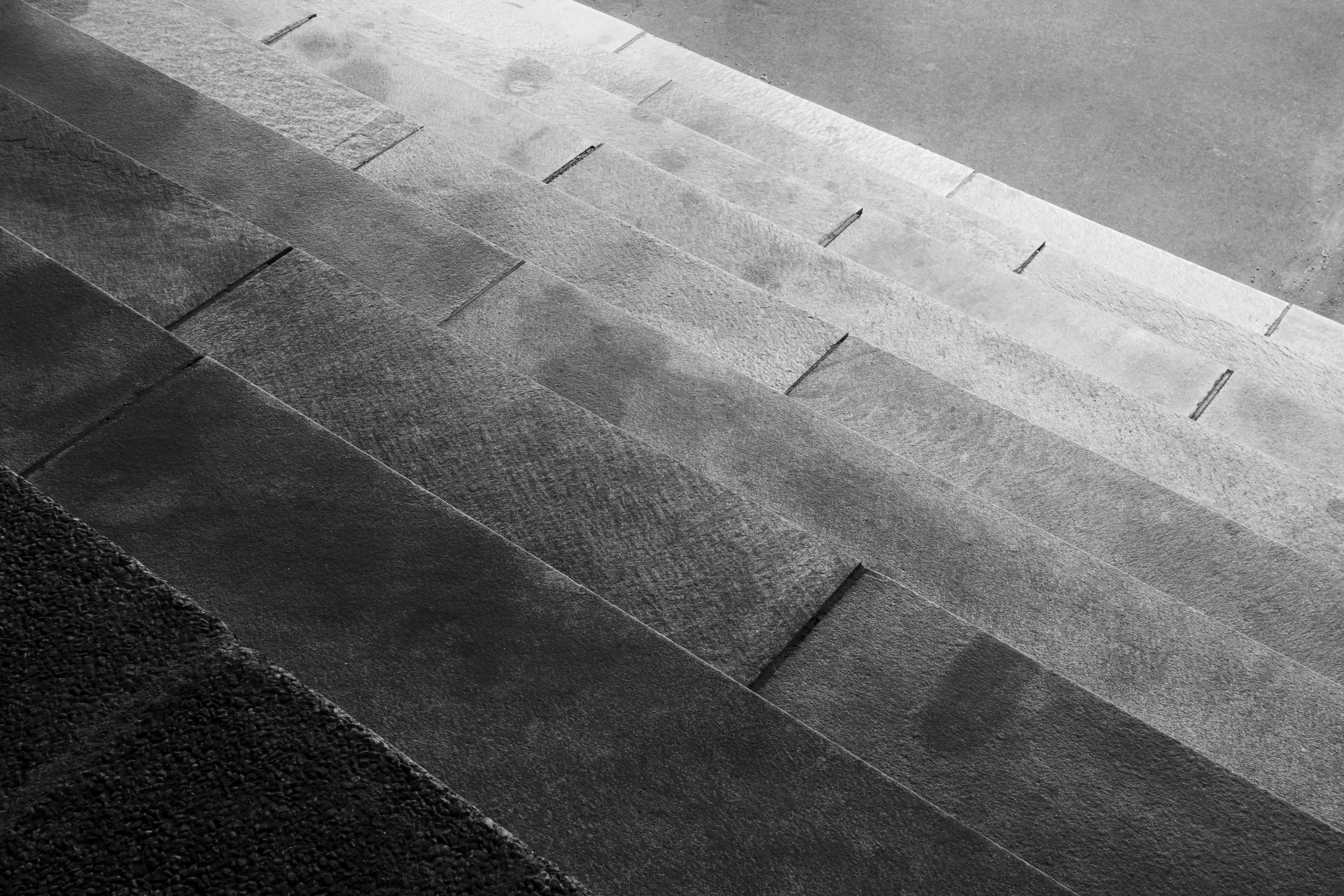 View and exterior in the passage at Kungstorget 8, Lysekil, Sweden, black and white version.